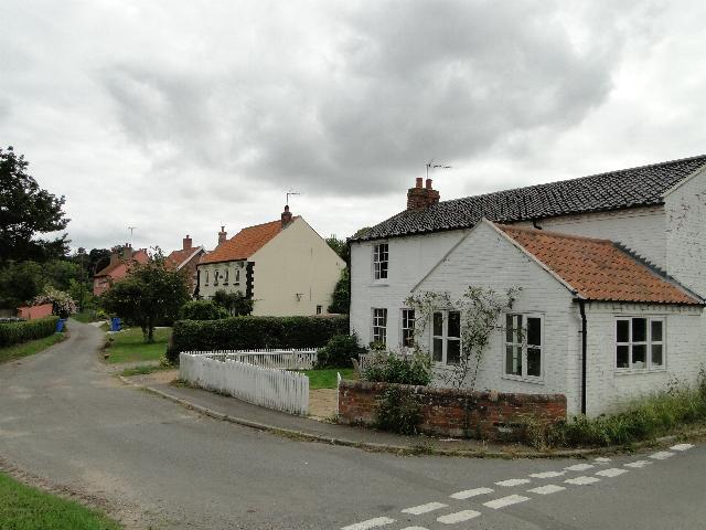 The Street, at Frostenden Corner, just outside of the main village